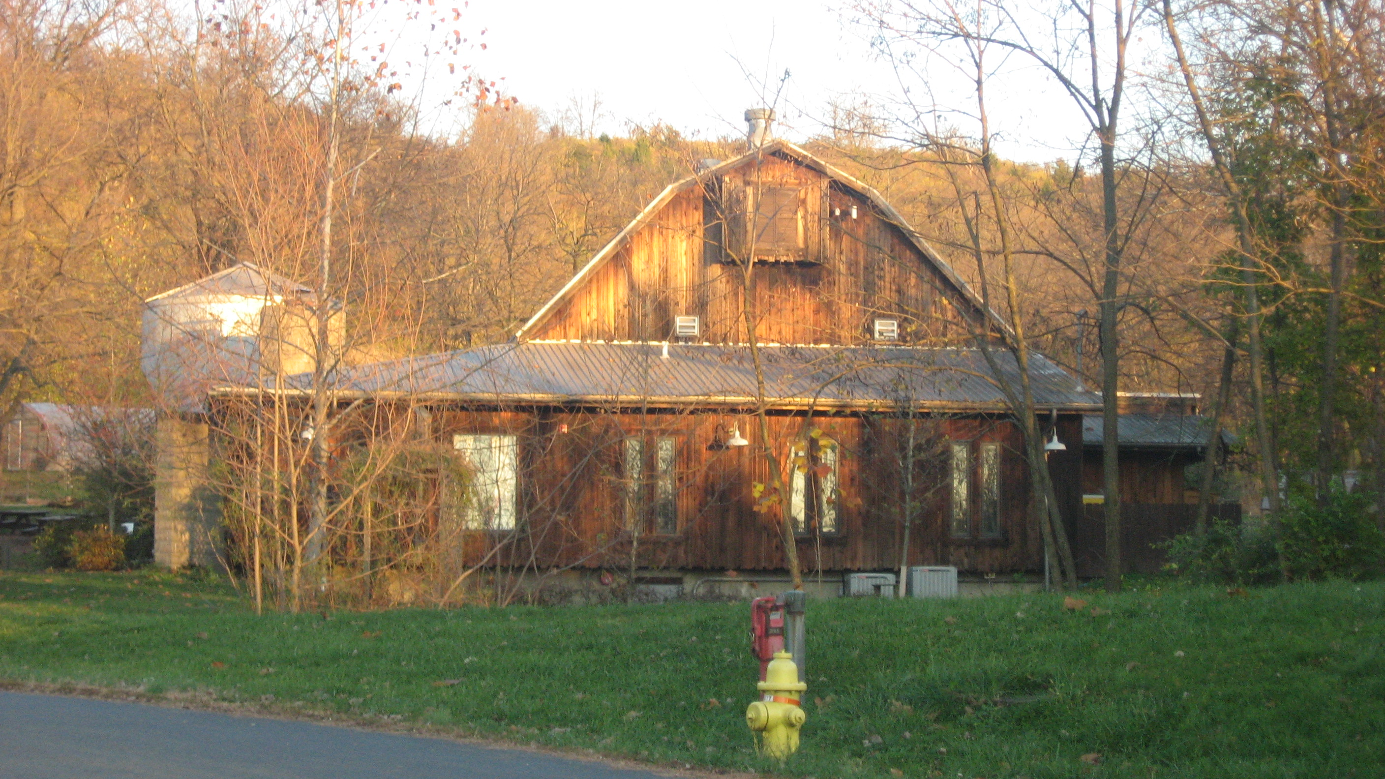 Western end of the main barn at the Brown-Gorman Farm, located at 10052 Reading Road in Evendale, Ohio, United States. Built in 1835 and substantially expanded (including everything visible here) in 1912, it and the rest of the farm are listed on the National Register of Historic Places.